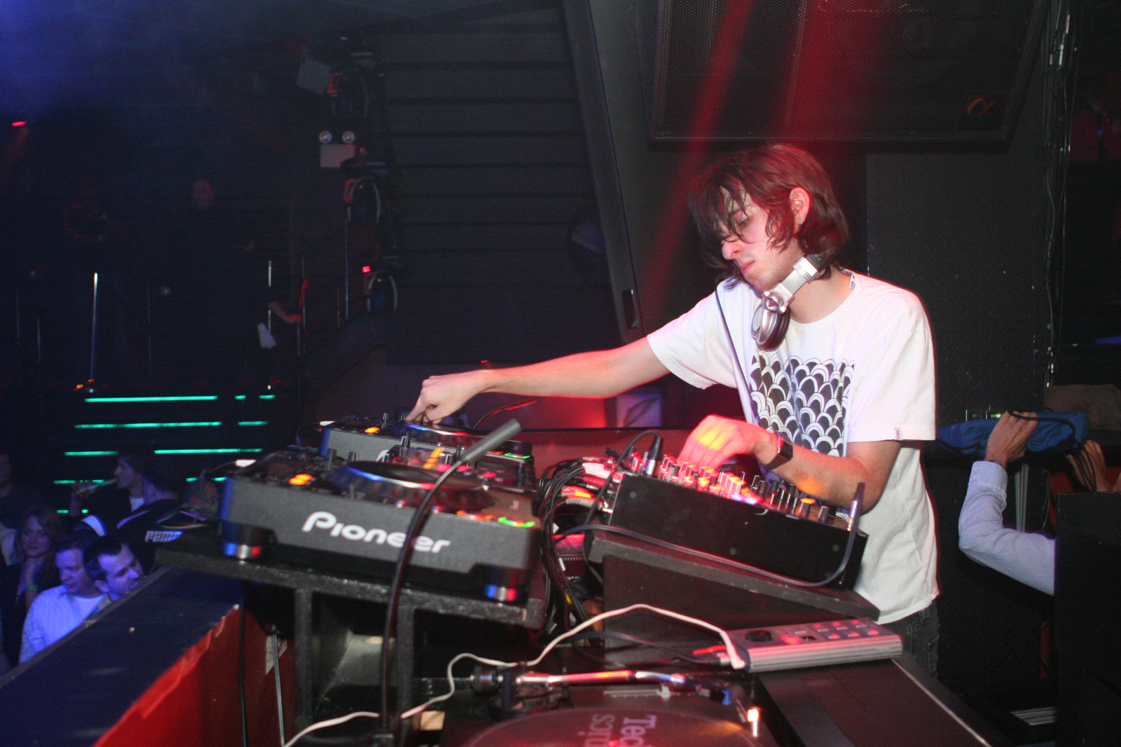 British musician James Holden - 2006-09-29 Holden & Burridge @ Pacha, NYC